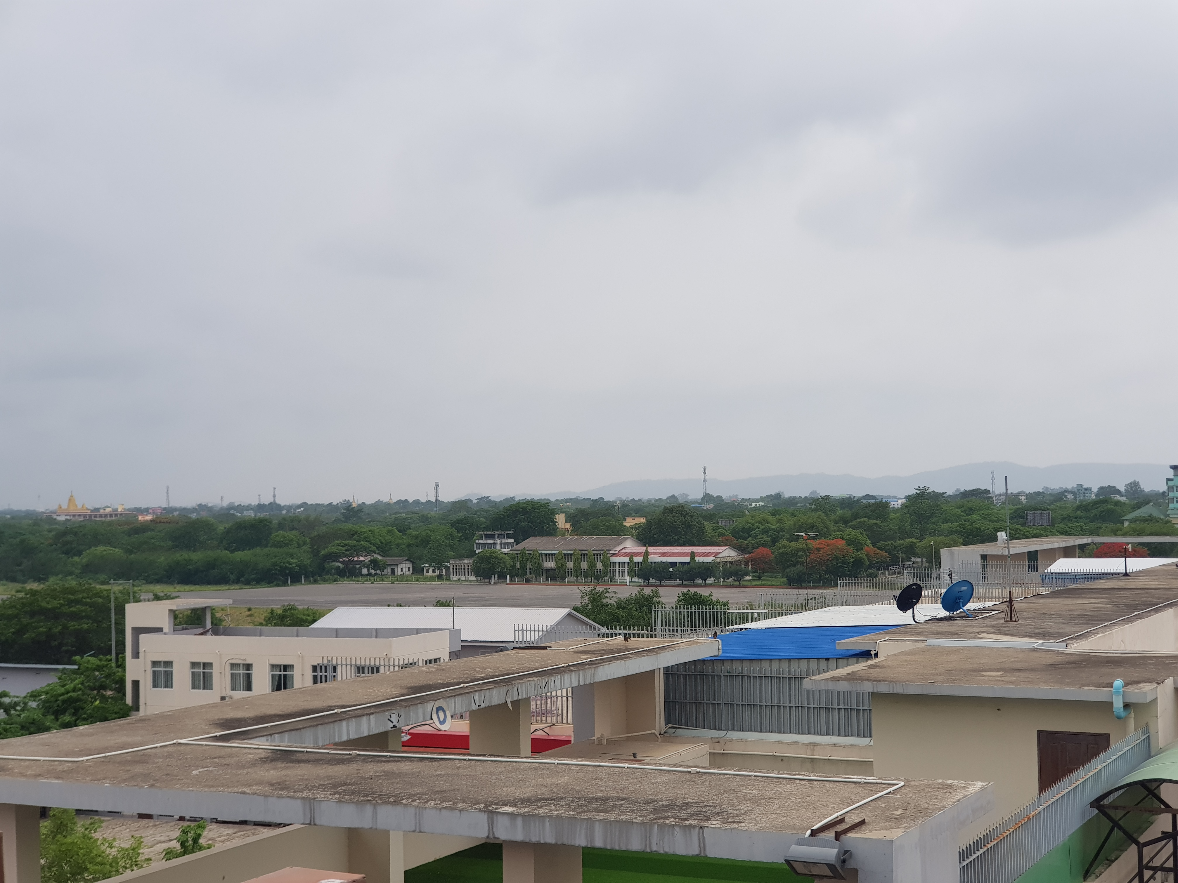 Terminal Building of Chanmyathazi Airport of Mandalay မြန်မာဘာသာ: မန္တ​လေးမြို့၊ ချမ်းမြသာစည်​လေဆိပ်၏ ​လေဆိပ်အ​ဆောက်အအုံ